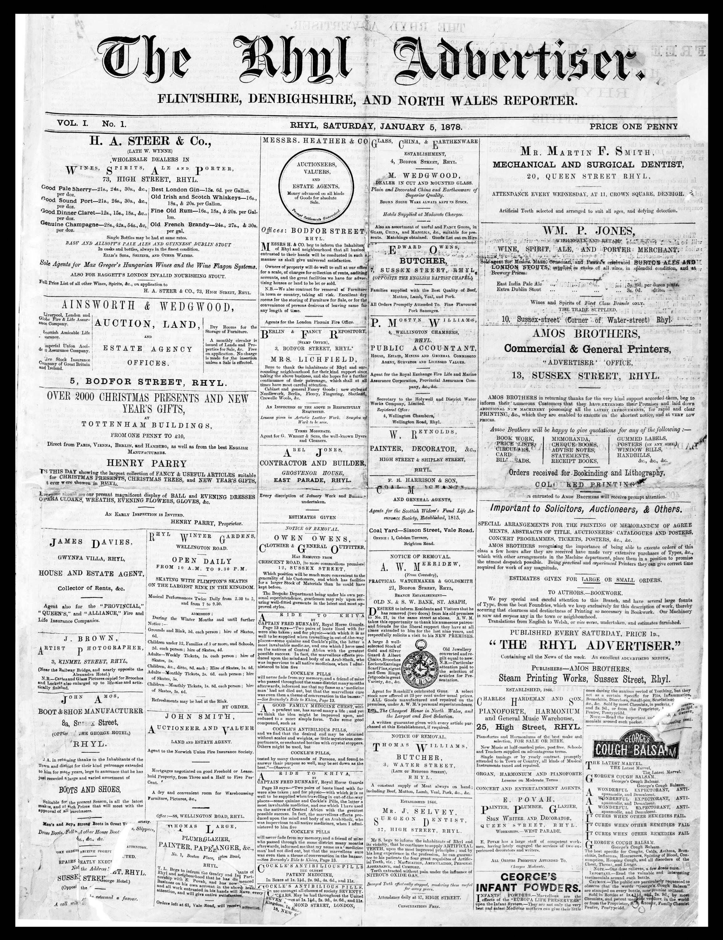 Front page of the earliest surviving copy of the Welsh newspaper The Rhyl Advertiser